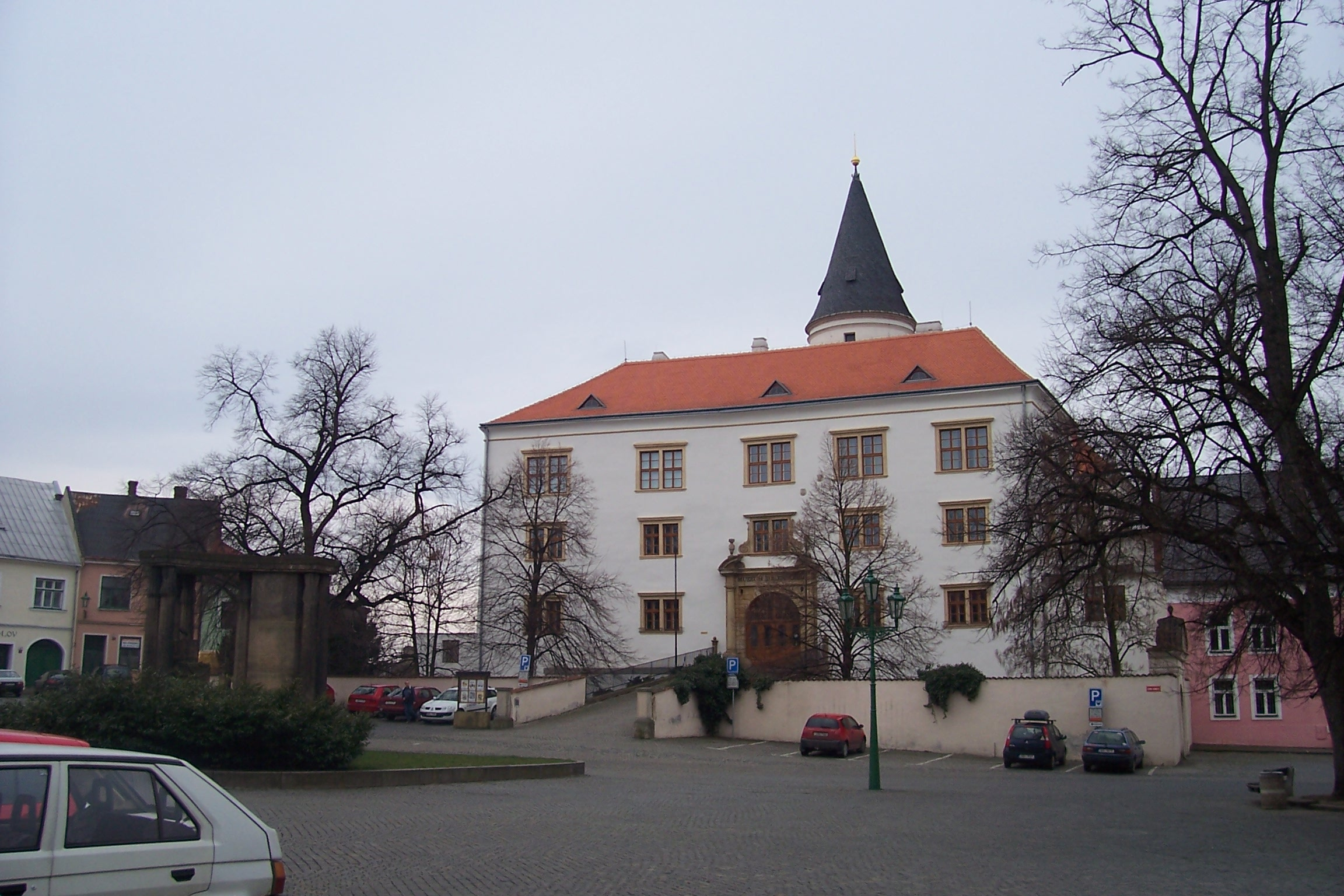 Přerov , Czech Republic. Castle, now Comenius-museum.